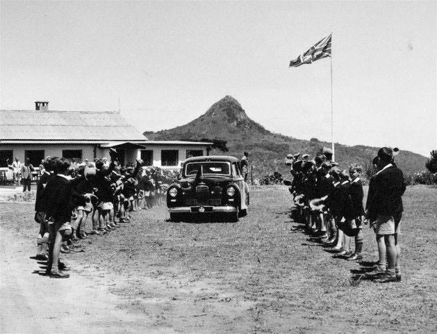 Queen Mother visit 1956